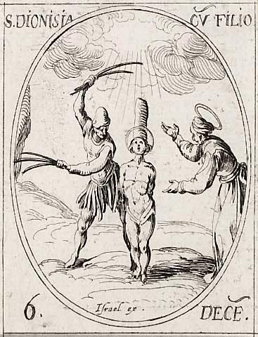 Saint Denise and Her Son (A depiction of Saints Dionysia and Majoricus, African martyrs).